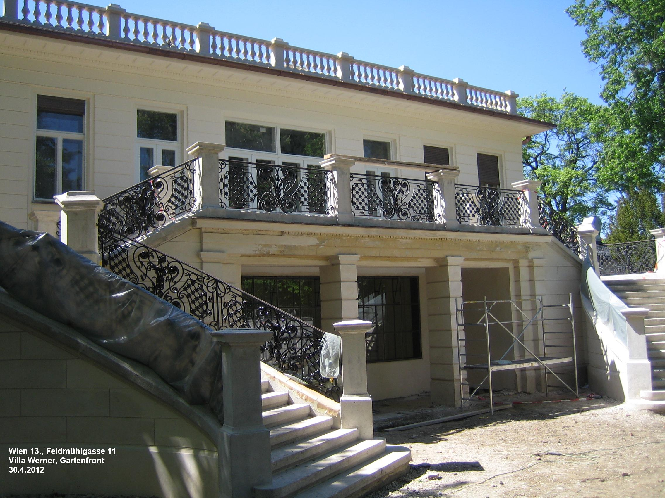 In the ground floor of the landhouse of former Ernestine Werner is located the atelier (1911-1918) of Gustav Klimt. Foto taken from the garden side.